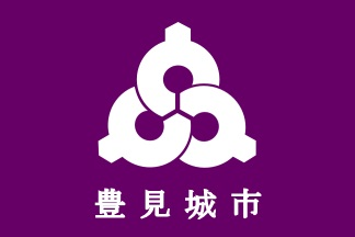 Flag of Tomigusuku Okinawa